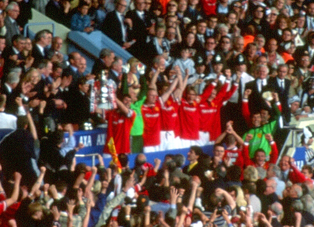 Manchester United captain Roy Keane lifts the FA Cup, presented to him by Charles, Prince of Wales, after his side beat Newcastle United 2–0 in the 1999 FA Cup Final at Wembley Stadium on 22 May 1999